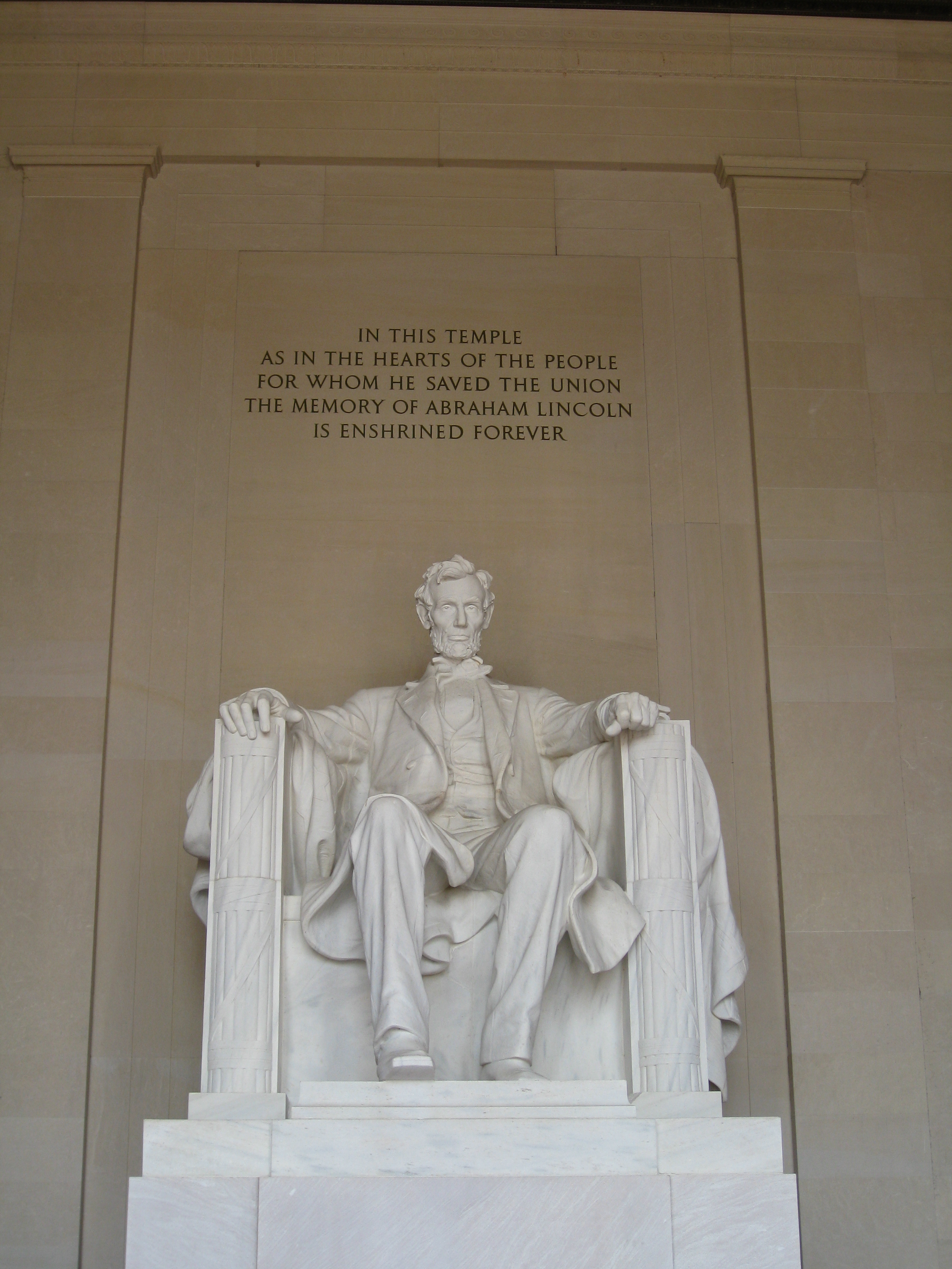 Abraham Lincoln Memorial - Washington DC, 2008